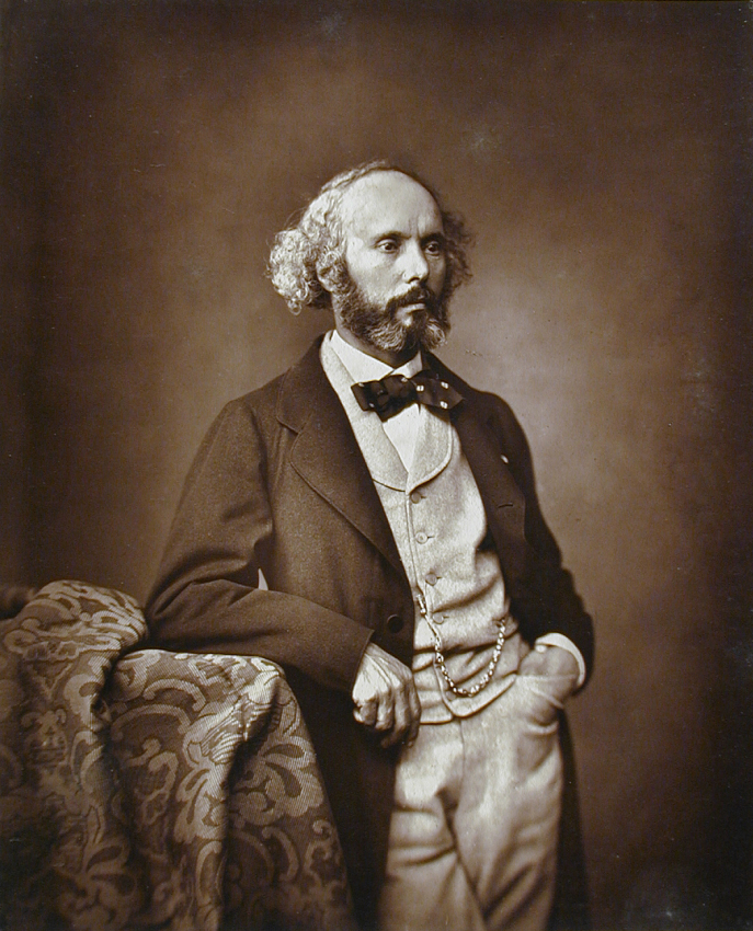 France, 1876-1884 Book: Galerie Contemporaine Volume, number, page: Volume 2 Photographs Woodburytype The Audrey and Sydney Irmas Collection (AC1992.229.21) Photography